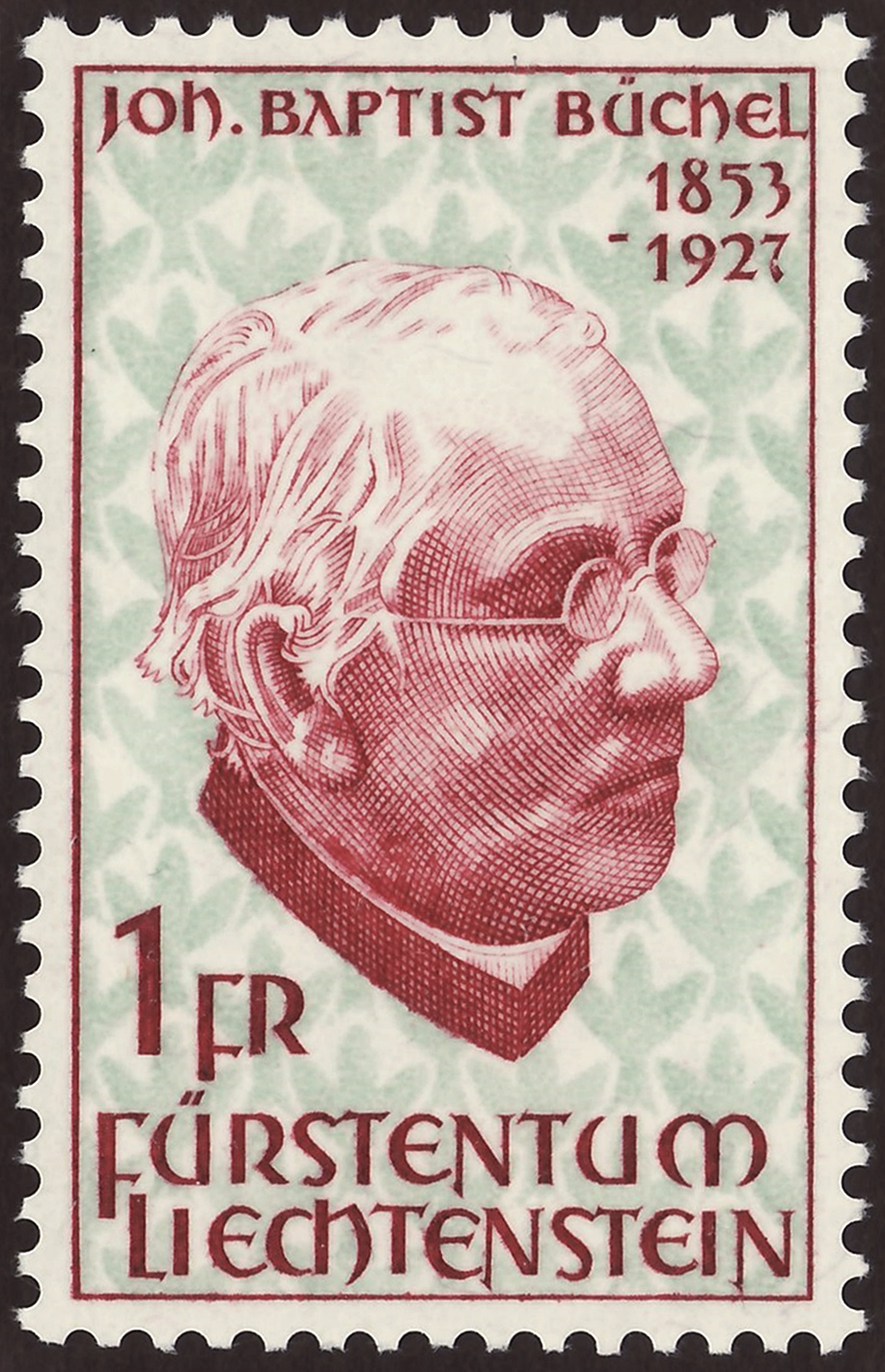 Stamp of the Principality of Liechtenstein; 1967; commemorative stamp to the "60th Anniversary of Death of Johann Baptist Büchel (1853-1927)"; stamp drawing with a head portrait of Johann Baptist Büchel; mint stamp Note: The pictured Johann Baptist Büchel (1853-1927) is not to mistake with the Liechtenstein priest, canon and parliament member of the "Landtag" (parliament of Liechtenstein) of the same name, Johann Baptist Büchel the Elder (1824-1907). Stamp: Michel: No. 480; Yvert et Tellier: No. 431; Scott: No. 429; AFA: No. 483 Color: pale greyish green / violet brown Watermark: none Nominal value: 1 FR (Franken, Franc) Postage validity: from 28 September 1967 until ? Stamp picture size (printed area): 22.5 x 38.0 mm